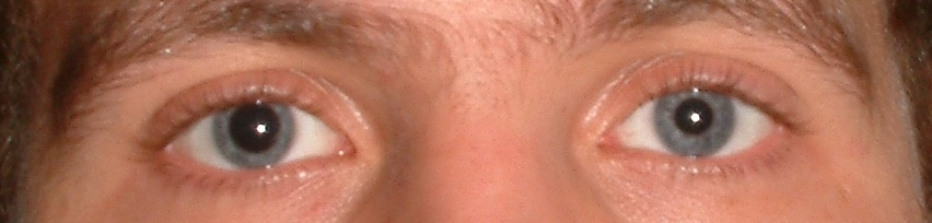 Anisocoria (right eye instiled by tropicamide)